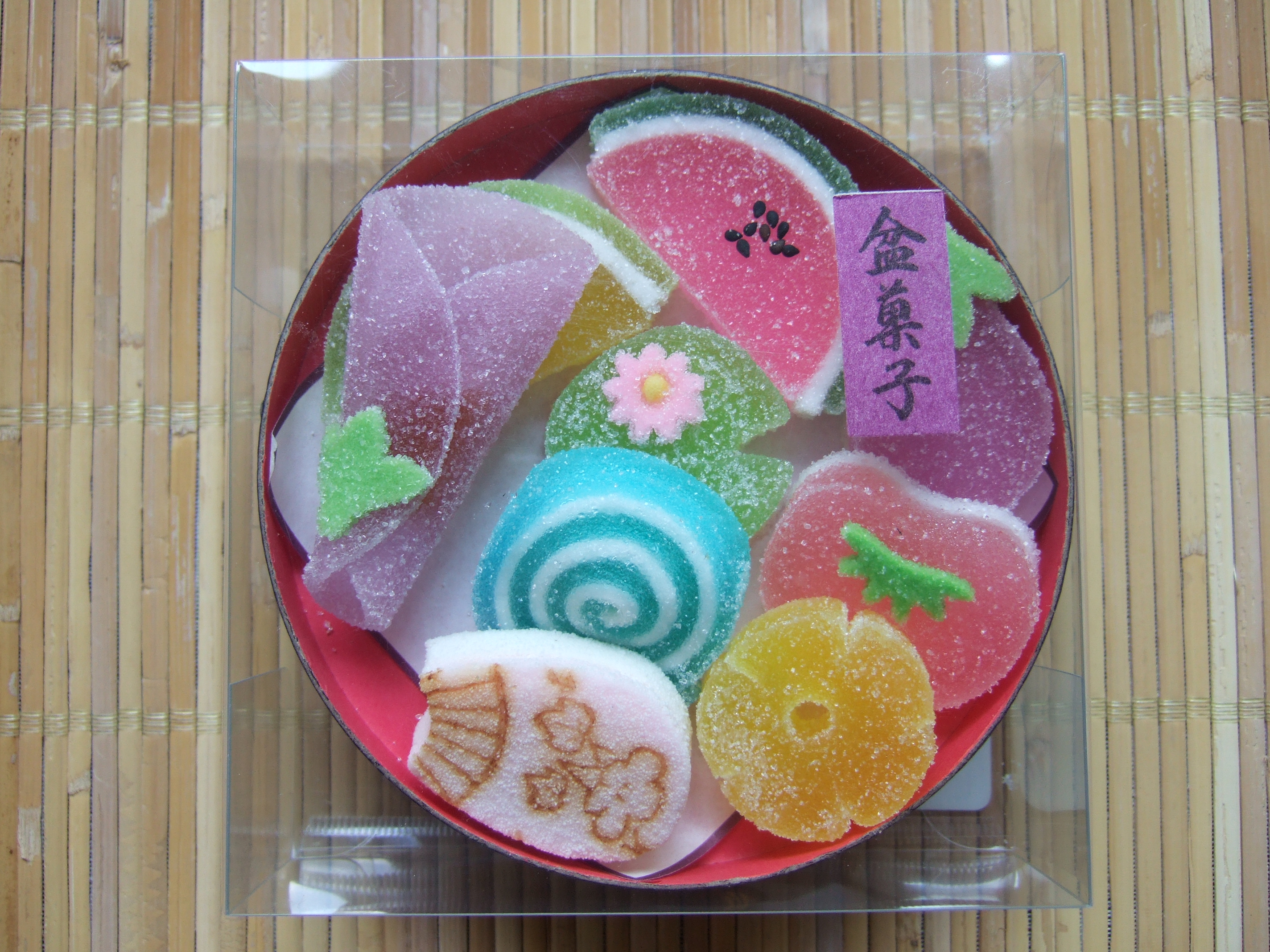 ゼリーで作られたお供え物用お菓子。Sweets from jelly, offering for Obon festival (no brand name)